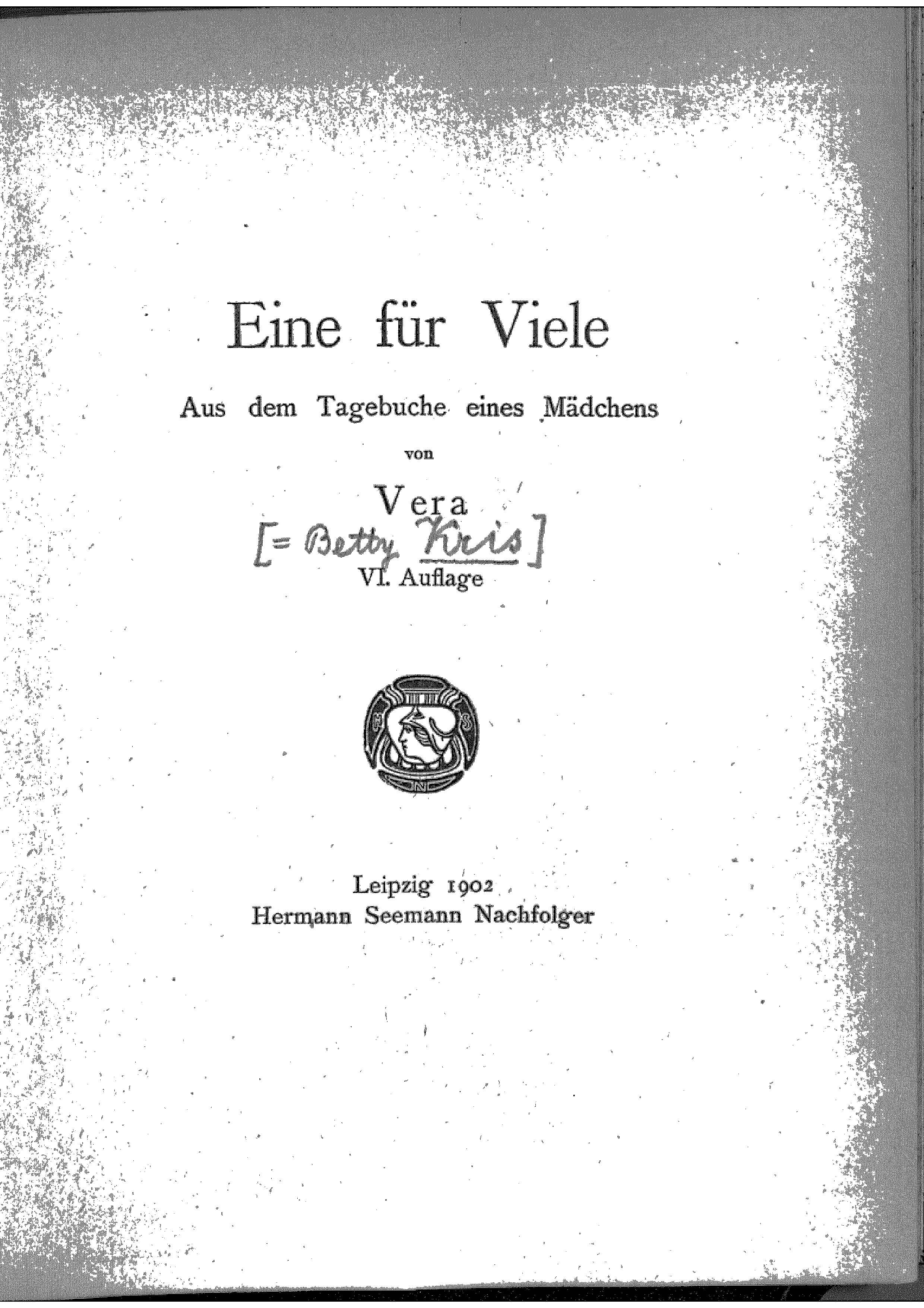 TItle page of Betty Kurth née Kris book "Eine für Viele", 1900